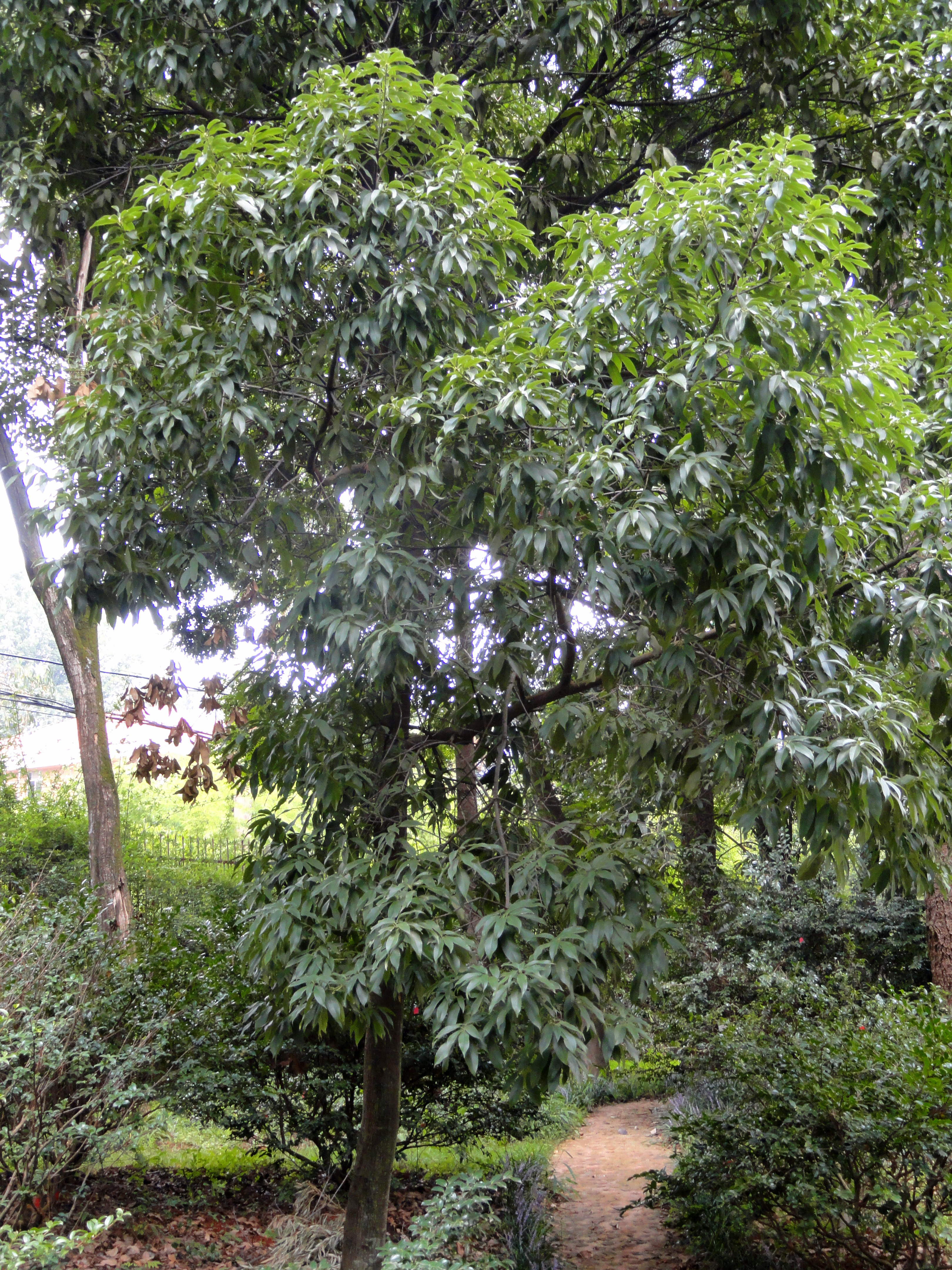 Plant specimen in the Kunming Botanical Garden, Kunming, Yunnan, China.